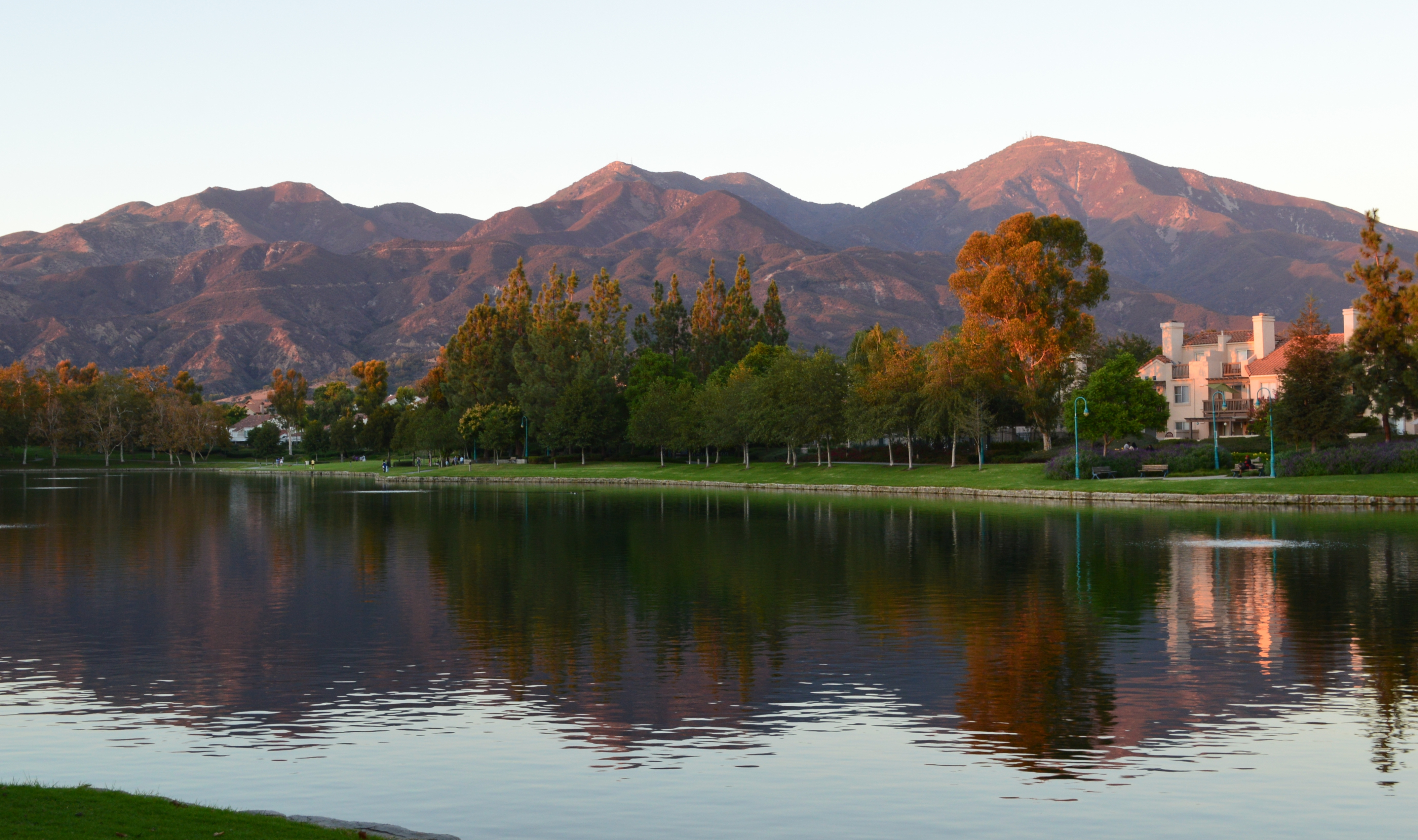 Saddleback seen from Lago Santa Margarita (Orange County, California) - Dusk